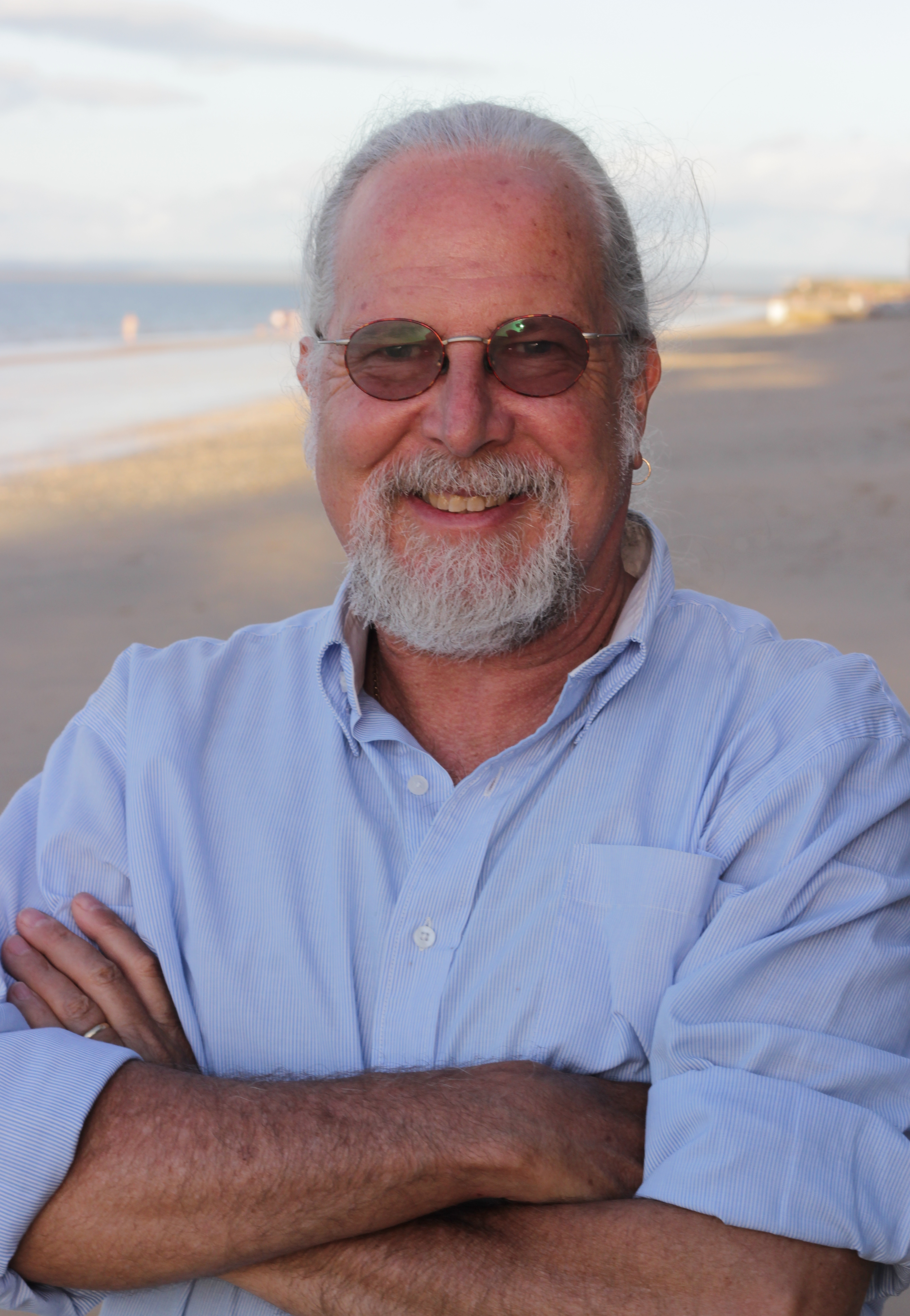 Photo of Manny Aston